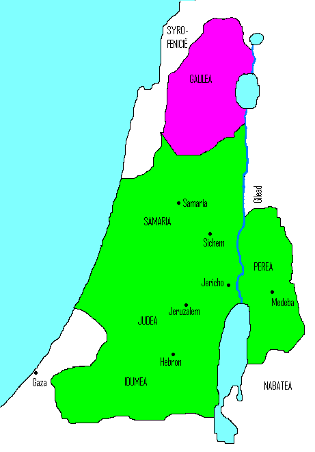 Judea onder Aristobulus I